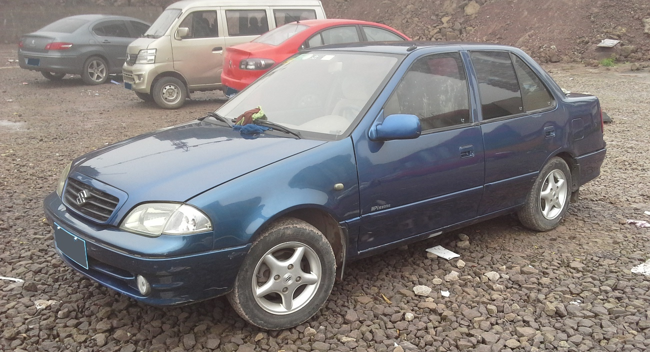 Suzuki Lingyang photographed in Chongqing, China.